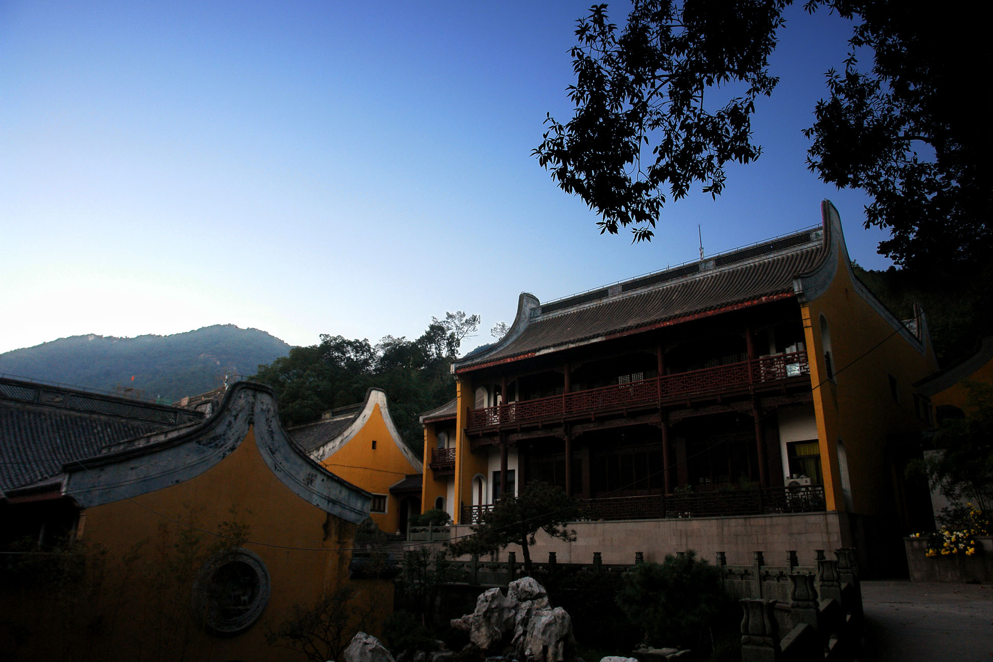 Lingyin Temple at Hangzhou, Zhejiang, China